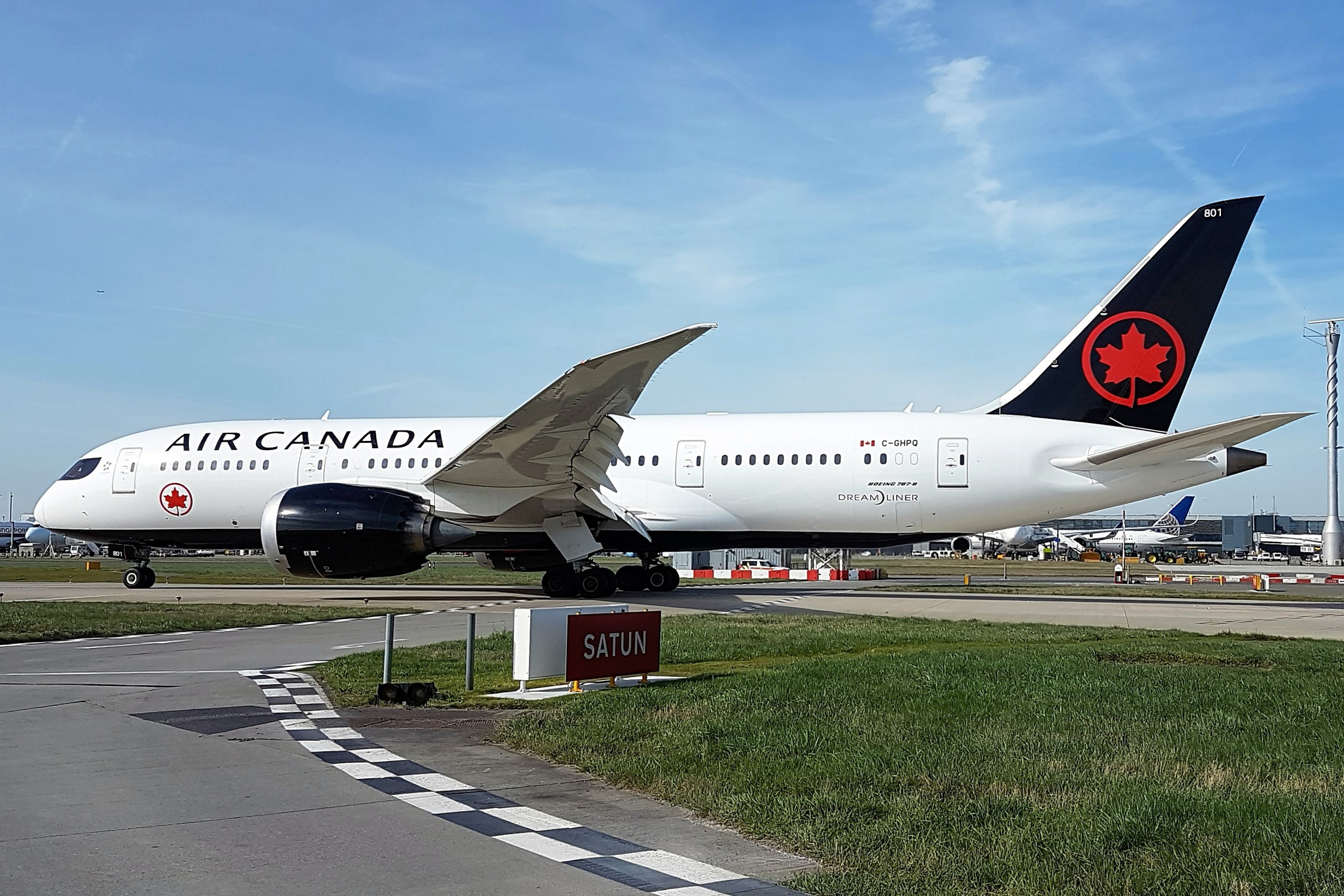 London Heathrow Airport